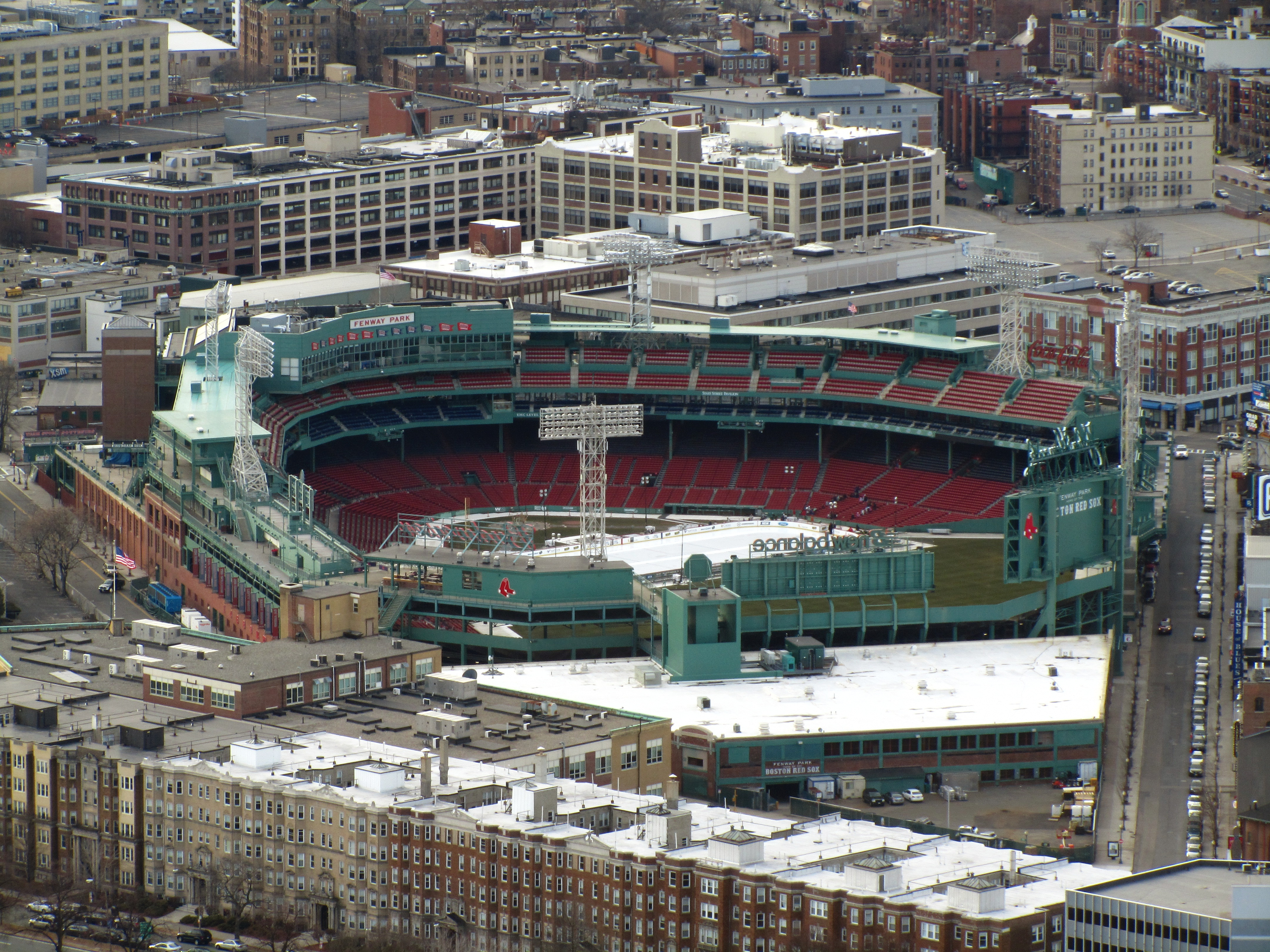 Fenway Park seen from the Prudential Skywalk.